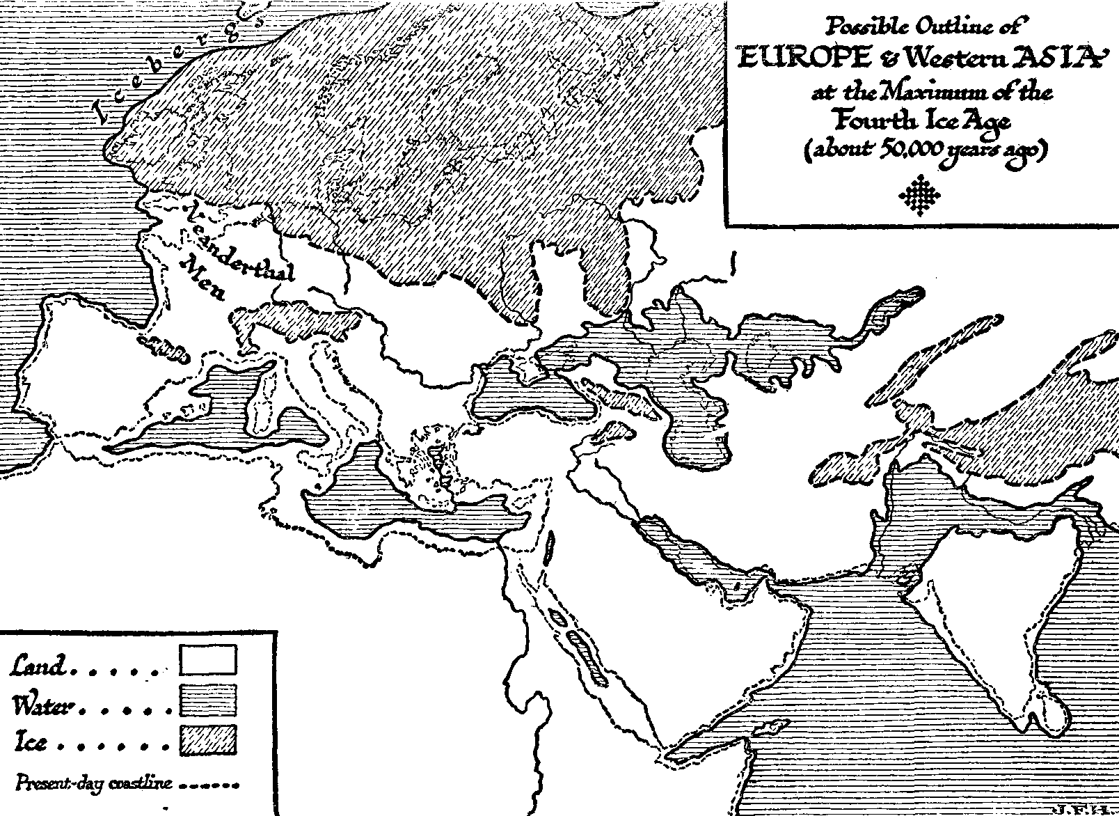 (in 1920) "THIS MAP REPRESENTS THE PRESENT STATE OF OUR KNOWLEDGE OF THE GEOGRAPHY OF EUROPE AND WESTERN ASIA AT A PERIOD WHICH WE GUESS TO BE ABOUT 50,000 YEARS AGO, THE NEANDERTHALER AGE. Much of this map is of course speculative, but its broad outlines must be fairly like those of the world in which men first became men."